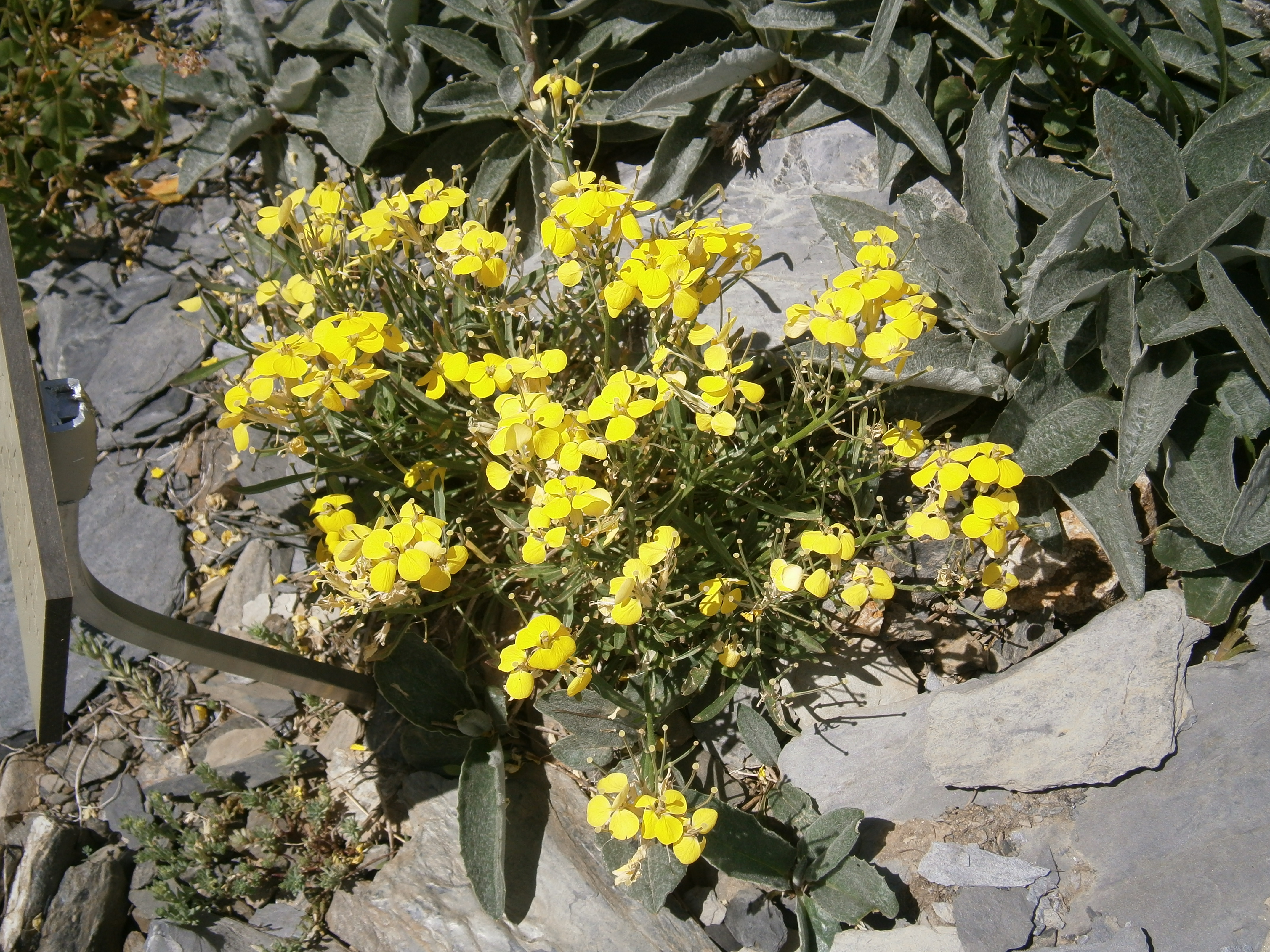 Erysimum jugicola in the Jardin Botanique Alpin du Lautaret